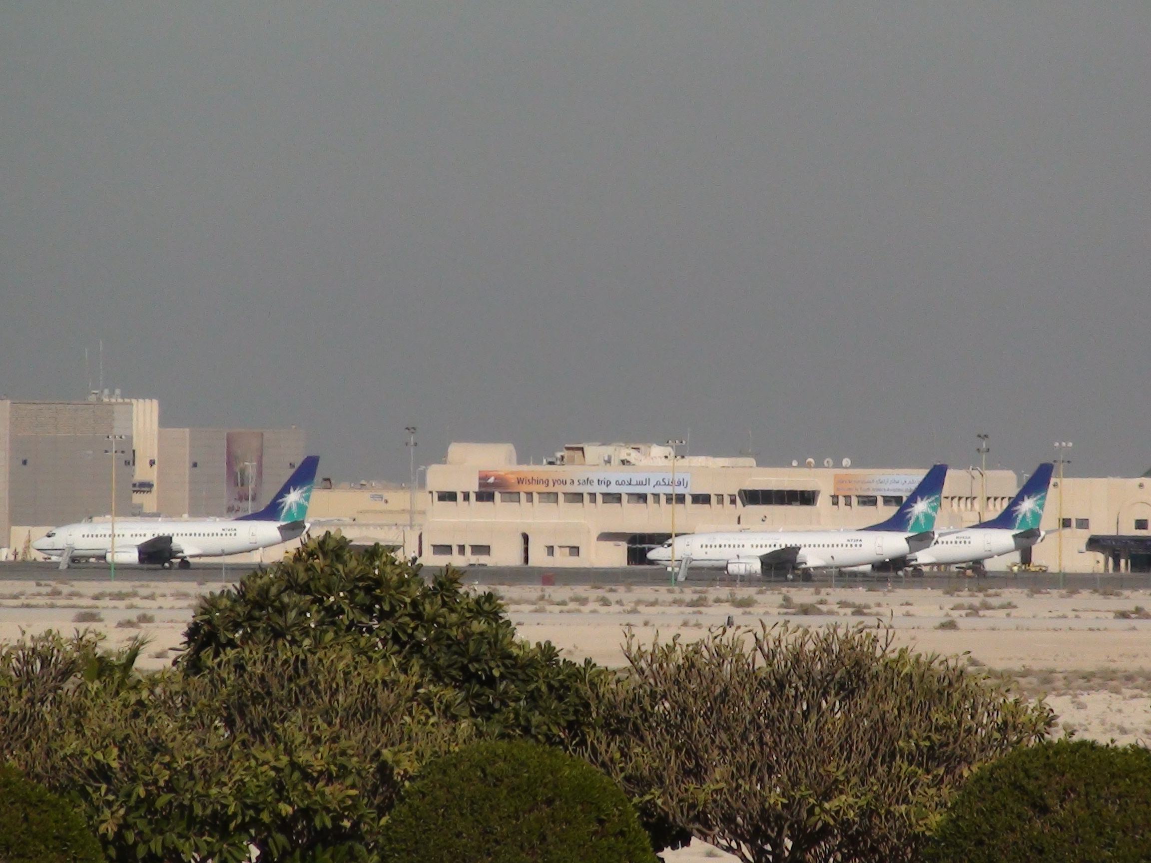 Saudi Aramco airplanes (3 Boeing 737-700 : N745A, N737A, N743A) parked in the general aviation terminal in King Fahd Interantional Airport in Dammam, Saudi Arabia.